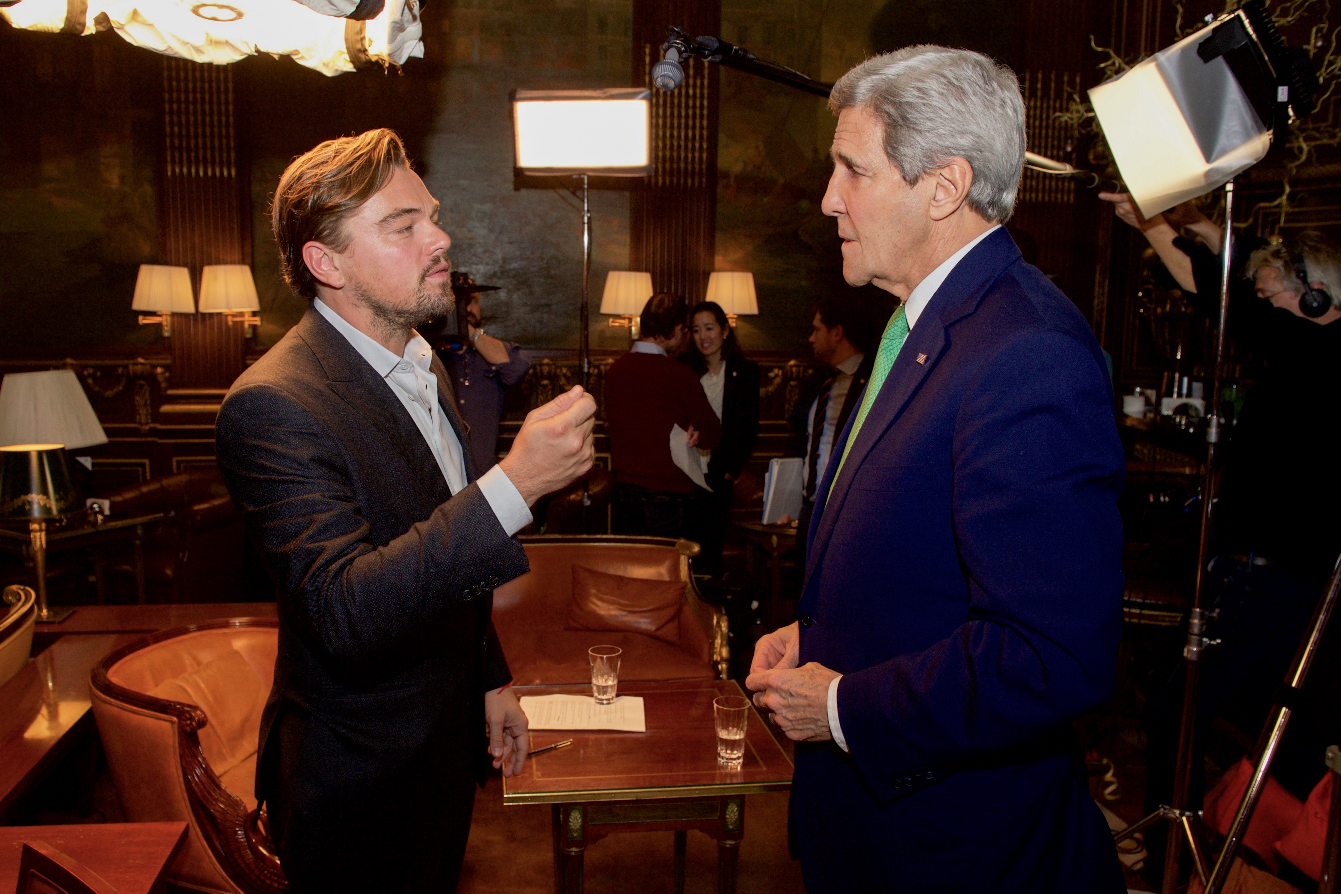 U.S. Secretary of State John Kerry speaks with American actor Leonardo DiCaprio on the margins of the COP21 climate change conference in Paris, France, on December 7, 2015, after the actor conducted an interview for an environmental documentary that he is making. [State Department photo/ Public Domain]